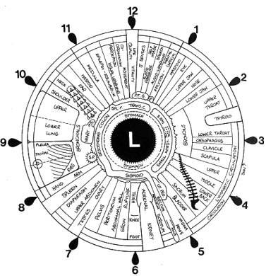 An iris chart used in iridology, left iris as viewed reflected in the mirror.